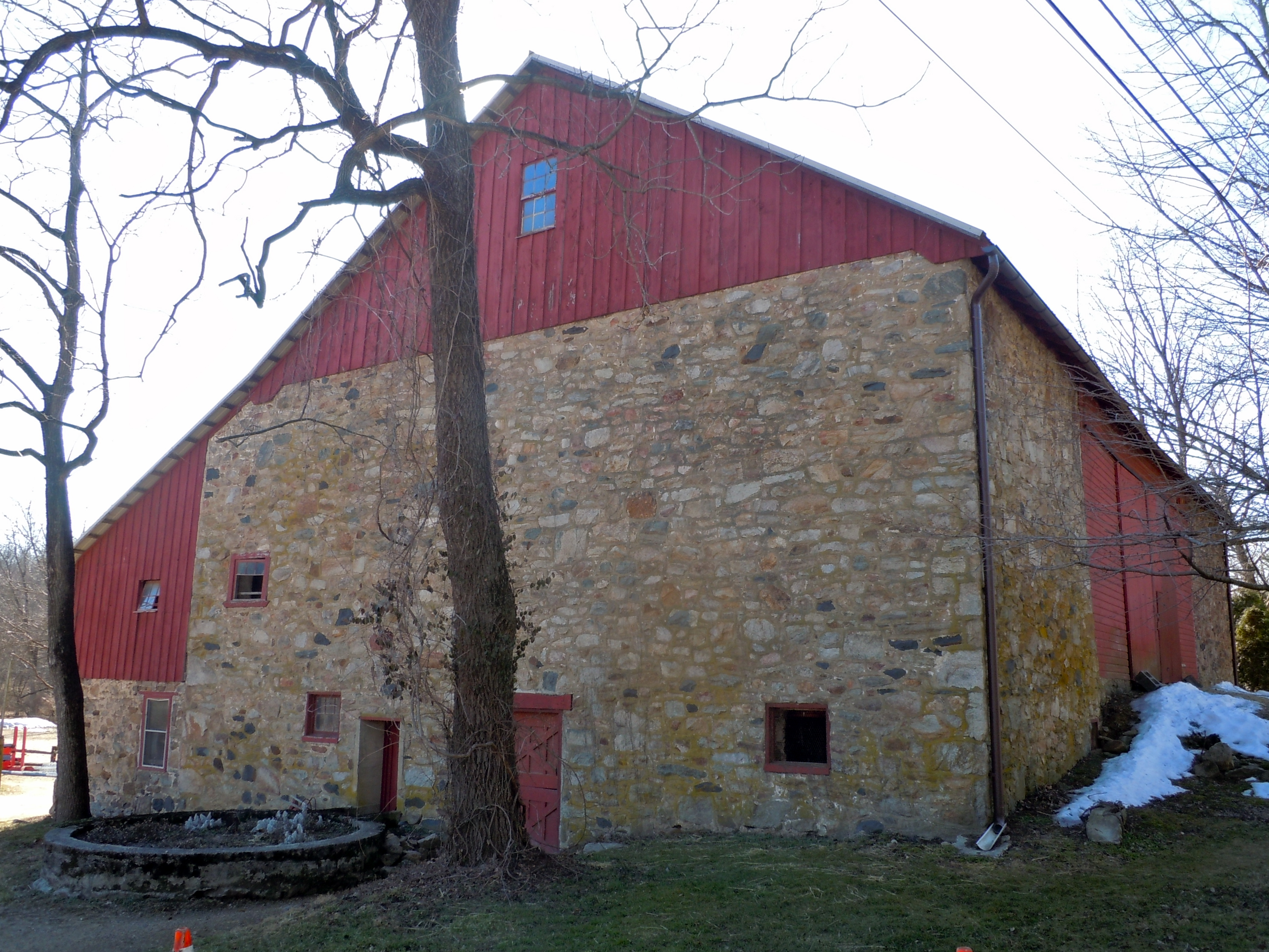 Barn on Rice-Pennebecker Farm on the NRHP since August 21, 1986. On Clover Mill Road near Chester Springs in West Pikeland Township, Chester County, Pennsylvania. Hartman House, also on the NRHP is about a half mile down the road (turn left on Church Rd). Pennebecker is probably a corruption of Pennypacker the name of a very well known family in the area and state, e.g. Galusha Pennypacker.